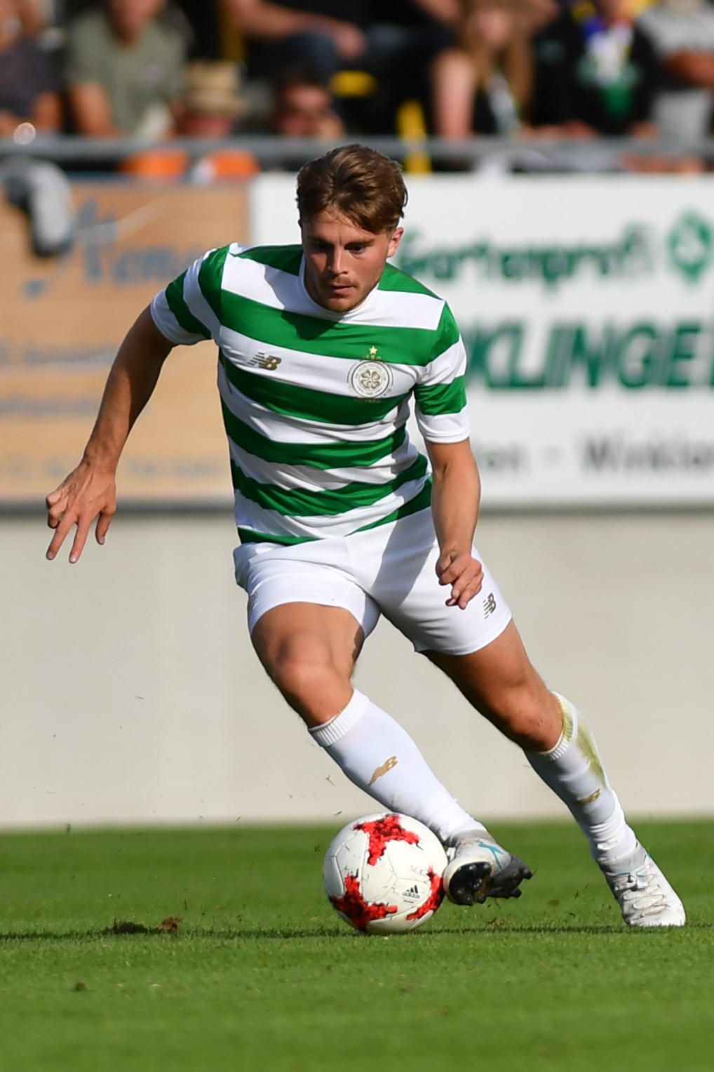 1/7/2017, Amstetten, Austria, sports, soccer, Tipico Fussball Bundesliga - preparation match SK Rapid Wien vs Celtic Glasgow. Image shows James Forrest (Celtic FC).